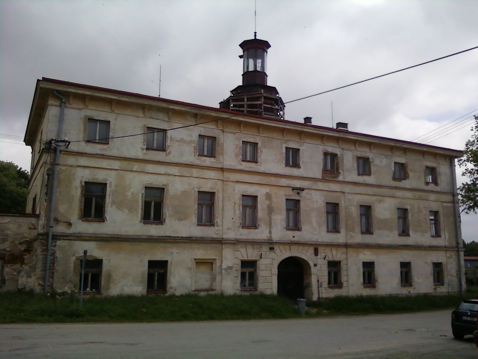 Stav zámku Čížkov v roce 2013